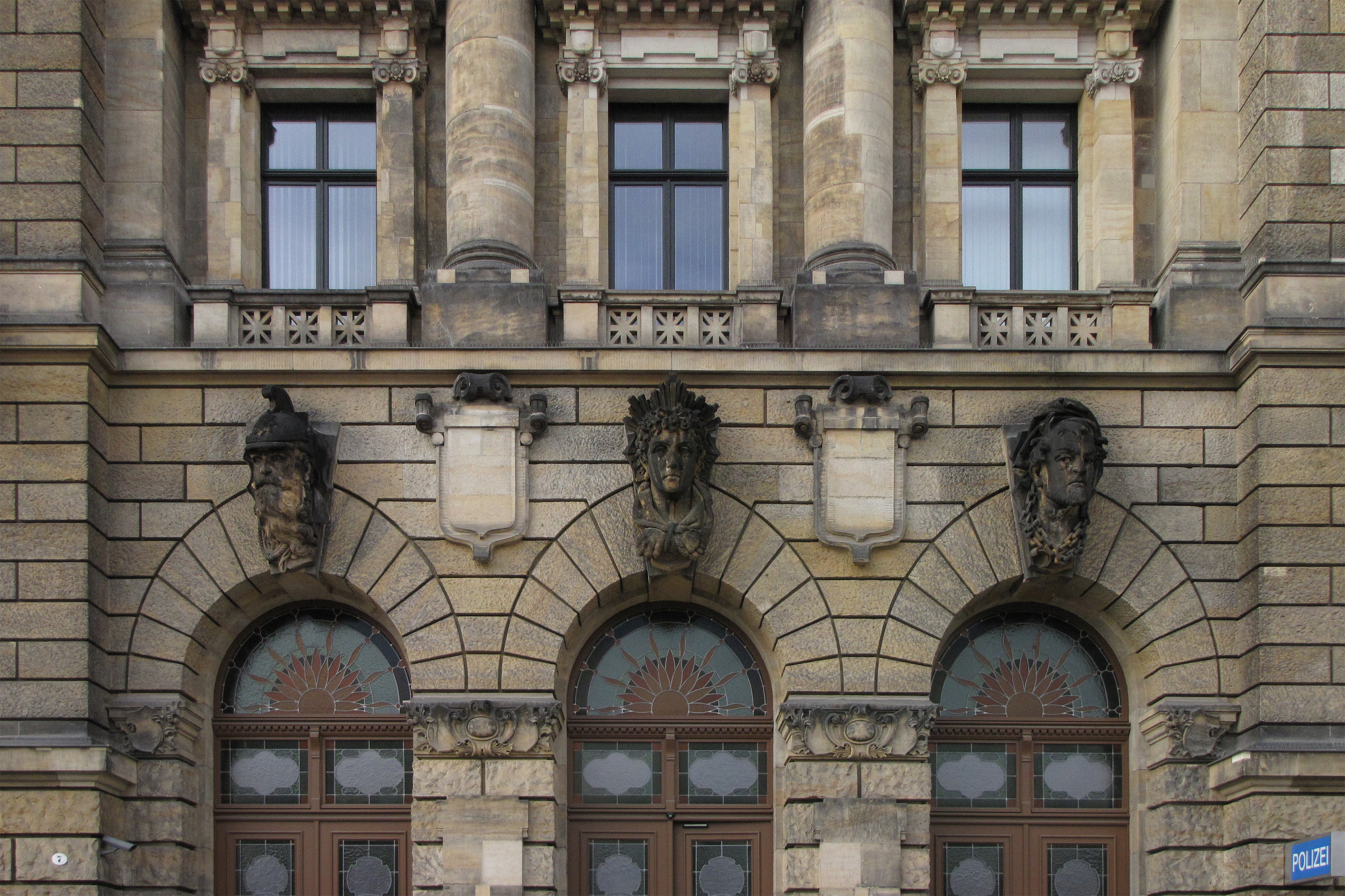 Sculptures over the main entrance police headquarters (Polizeipräsidium) at Pirnaischen Platz in Dresden